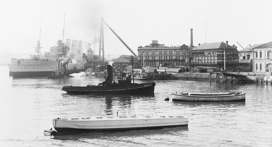 Garden Island - to the left is the large three-funnelled Royal Australian Navy cruiser HMAS AUSTRALIA. The ship tied alongside is the small cruiser HMAS ADELAIDE. In the foreground is the steam tug WATTLE and a high-speed battle practice target boat which was radio-controlled. Dated: 2/8/1939 Digital ID: 9856_2017_2017000254 Rights: We'd love to hear from you if you use our photos. Many other photos in our collection are available to view and browse on our website using Photo Investigator.